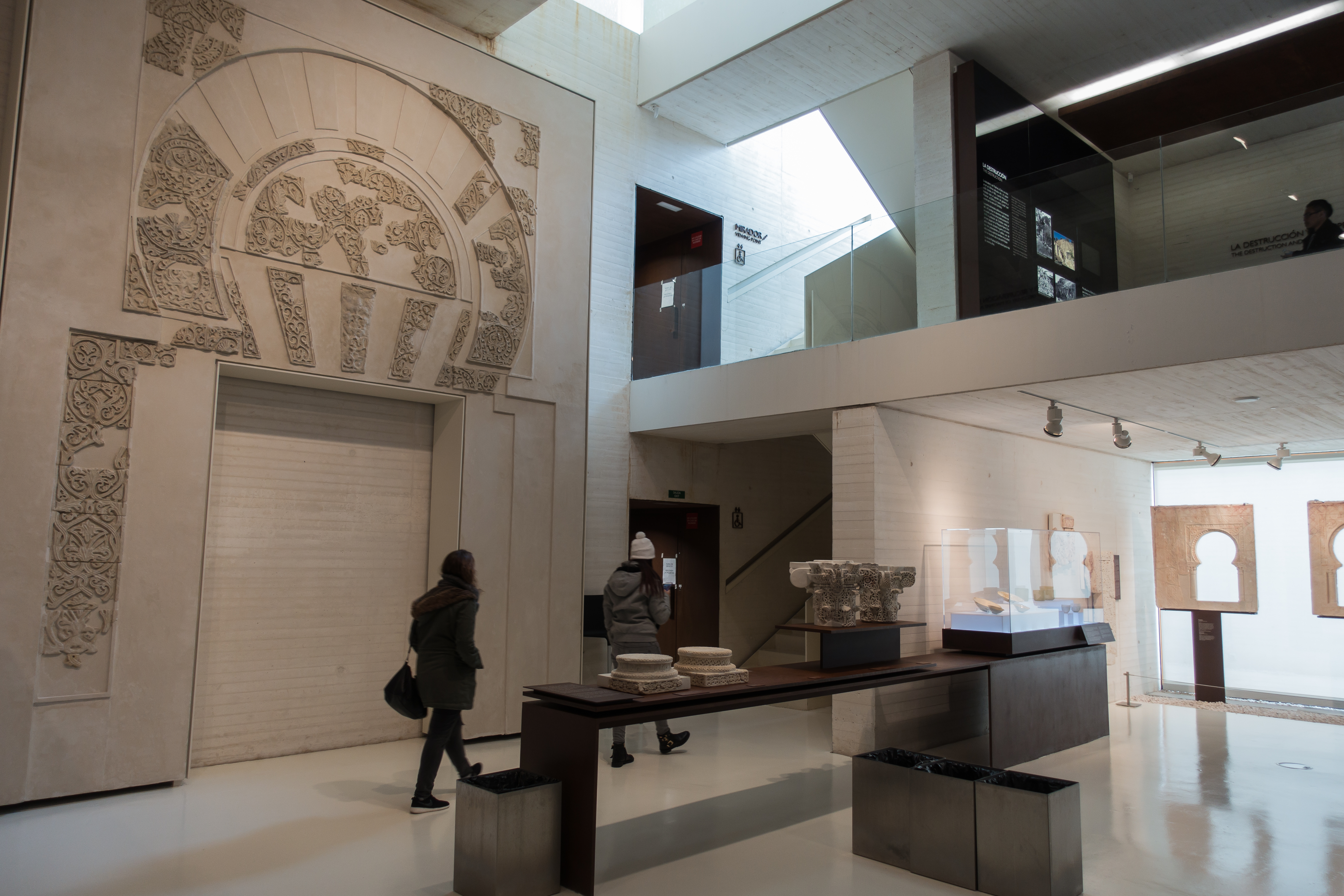 Madinat Al-Zahra Museum. Exhibition Room.